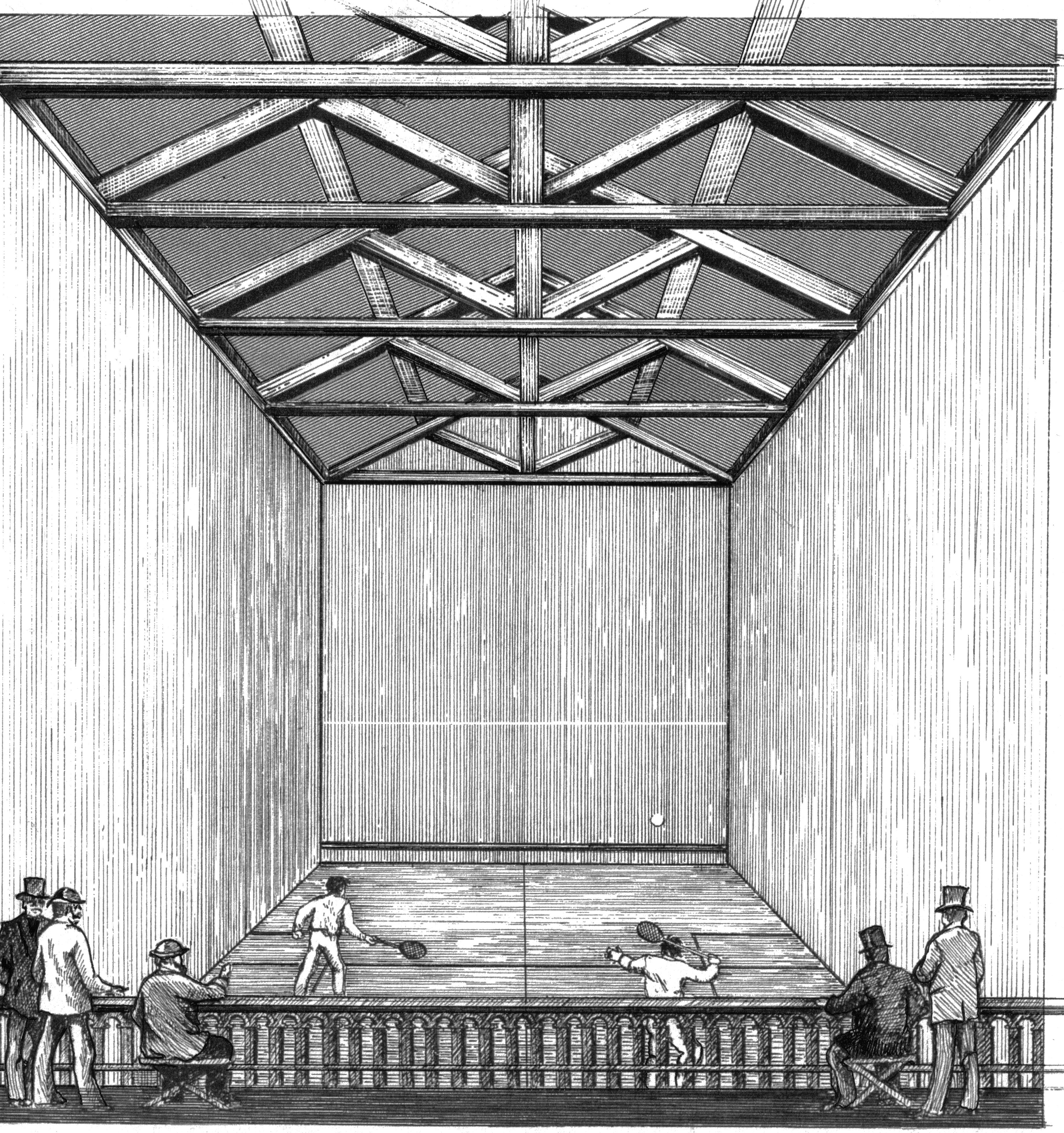 The interior of the Eglinton Castle Rackets hall in 1842. Kilwinning, Scotland